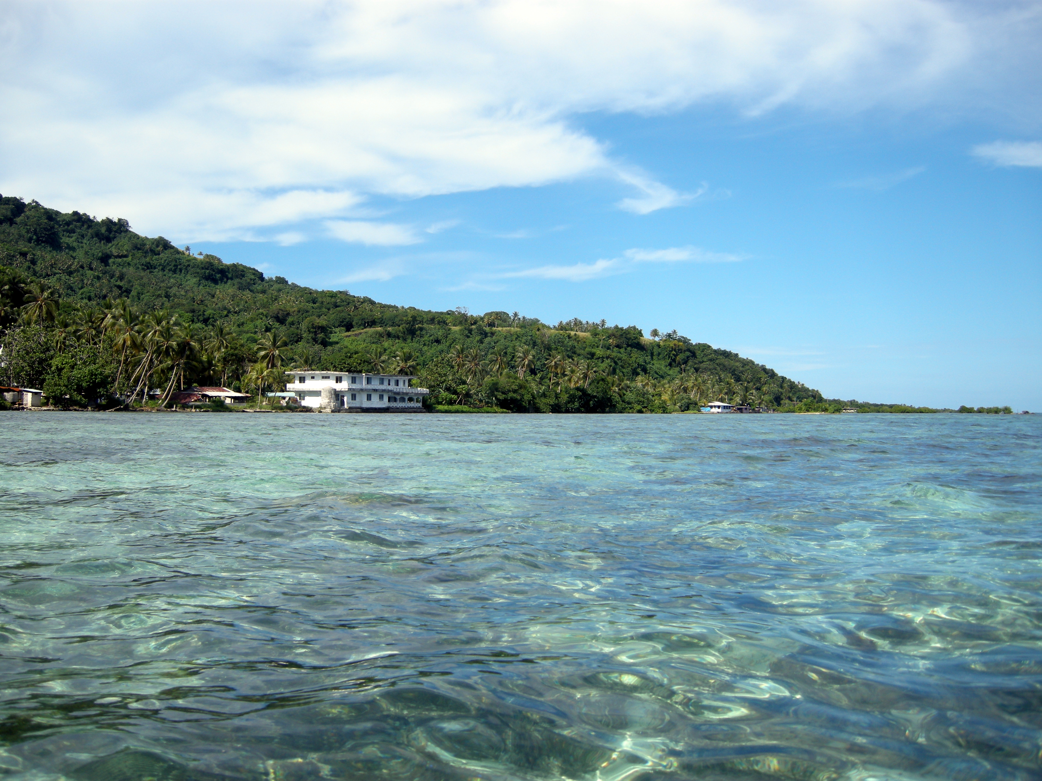 View of Weno Island in the Chuuk lagoon, Federated States of Micronesia